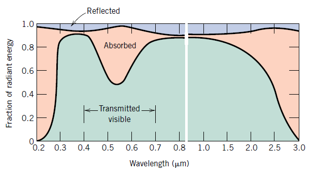 ناحیه طیف مریی یک شیشه سبز